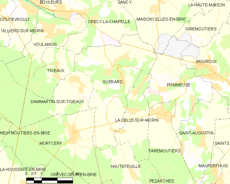 Map of French municipality Guérard